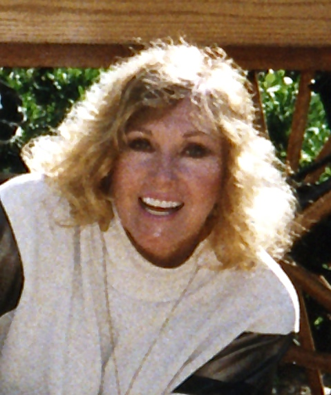 Actress Kim Novak, image courtesy Robert Malloy